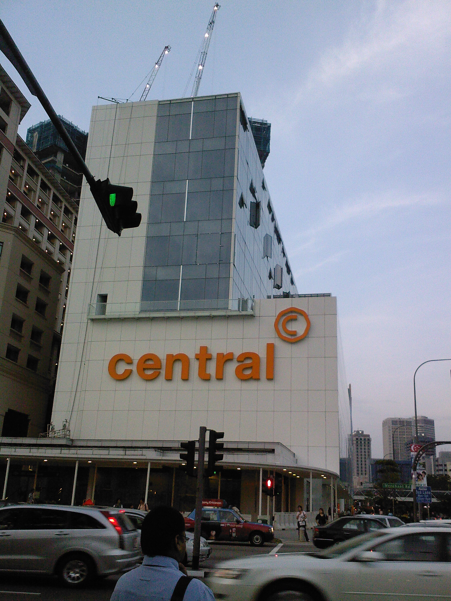 The Central, Singapore, under construction.